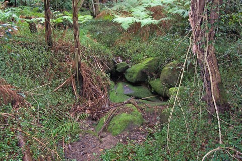 Tradescantia fluminensis, covering the forest floor at Chatswood West, Australia